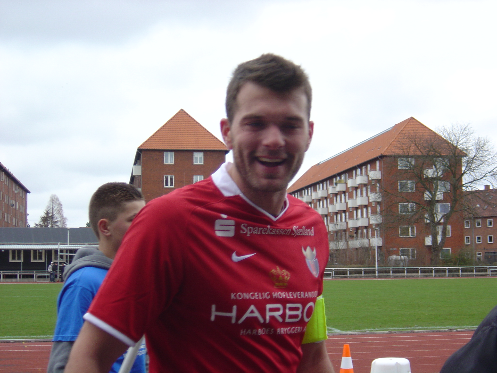 Andreas Mortensen — a Danish Association football player seen here in the team shirt of Danish association football club FC Vestsjælland after the Danish 2nd Division (east) (level 3) match at Frederiksberg Idrætspark against the reserve team of F.C. Copenhagen on 5 April 2009.